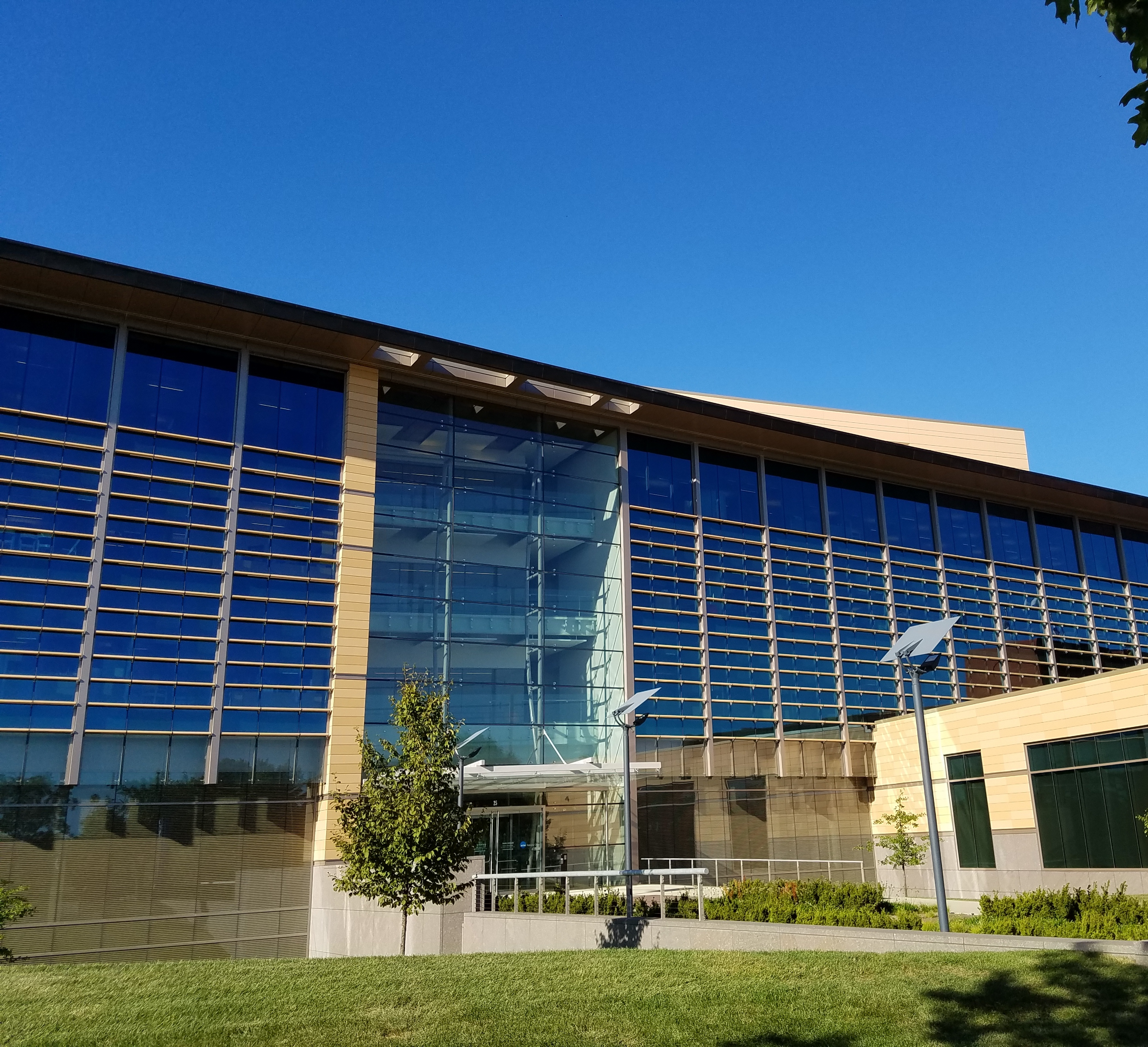 This is the entrance to the NCAA's National Office from White River State Park, Indianapolis, Indiana. The image was captured September 12, 2016